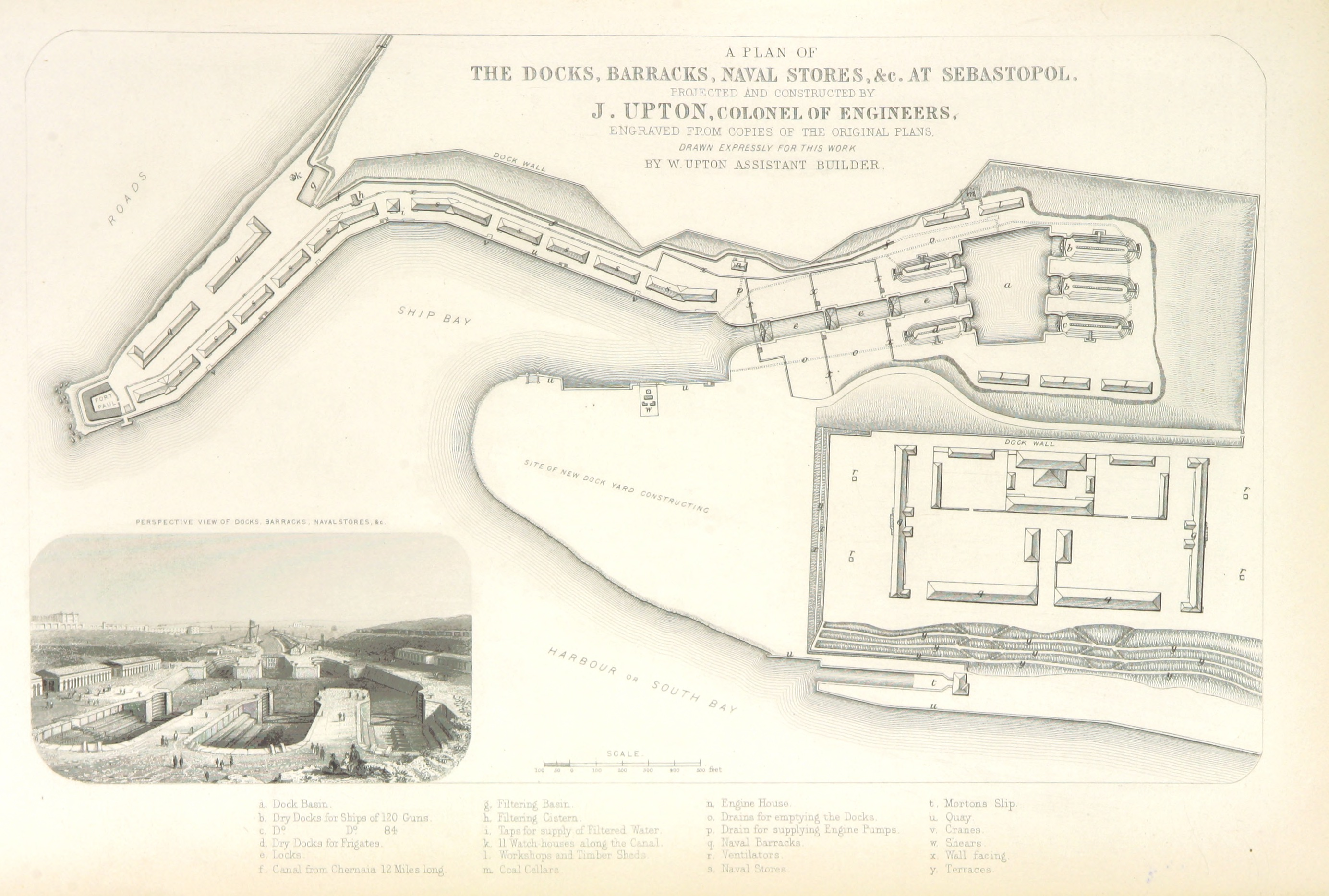 View this map on the BL Georeferencer service. Image taken from: Title: "The Illustrated History of the War against Russia. Plates" Author: NOLAN, Edward Henry - Ph.D Shelfmark: "British Library HMNTS 9078.h.12." Volume: 02 Page: 805 Place of Publishing: London Date of Publishing: 1855 Issuance: monographic Identifier: 002666158 Explore: Find this item in the British Library catalogue, 'Explore'. Download the PDF for this book (volume: 02) Image found on book scan 805 (NB not necessarily a page number) Download the OCR-derived text for this volume: (plain text) or (json) Click here to see all the illustrations in this book and click here to browse other illustrations published in books in the same year. Order a higher quality version from here.